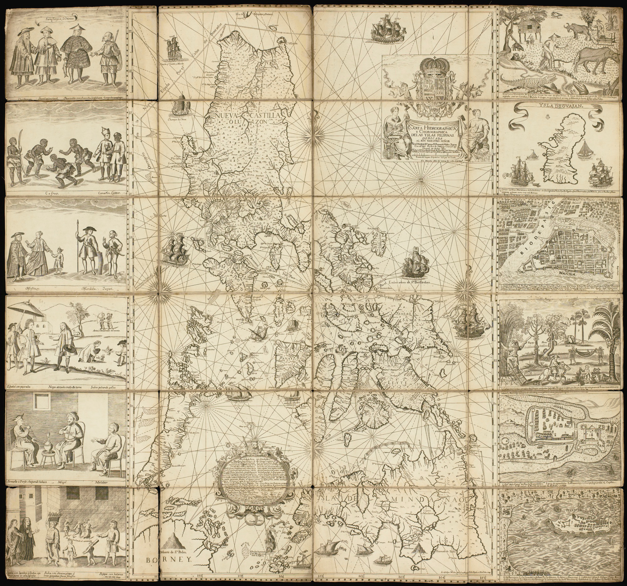 This magnificent map of the Philippine archipelago, drawn by the Jesuit Father Pedro Murillo Velarde (1696–1753) and published in Manila in 1734, is the first and most important scientific map of the Philippines. The Philippines were at that time a vital part of the Spanish Empire, and the map shows the maritime routes from Manila to Spain and to New Spain (Mexico and other Spanish territory in the New World), with captions. In the upper margin stands a great cartouche with the title of the map, crowned by the Spanish royal coat of arms flanked each side by an angel with a trumpet, from which an inscription unfurls. The map is not only of great interest from the geographic point of view, but also as an ethnographic document. It is flanked by twelve engravings, six on each side, eight of which depict different ethnic groups living in the archipelago and four of which are cartographic descriptions of particular cities or islands. According to the labels, the engravings on the left show: Sangleyes (Chinese Philippinos) or Chinese; Kaffirs (a derogatory term for non-Muslims), a Camarin (from the Manila area), and a Lascar (from the Indian subcontinent, a British Raj term); mestizos, a Mardica (of Portuguese extraction), and a Japanese; and two local maps—one of Samboagan (a city on Mindanao), and the other of the port of Cavite. On the right side are: various people in typical dress; three men seated, an Armenian, a Mughal, and a Malabar (from an Indian textile city); an urban scene with various peoples; a rural scene with representations of domestic and wild animals; a map of the island of Guajan (meaning Guam); and a map of Manila. Ethnic groups; Nautical charts